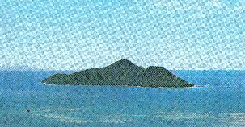 Sainte Anne Island as seen from Mahé, Seychelles